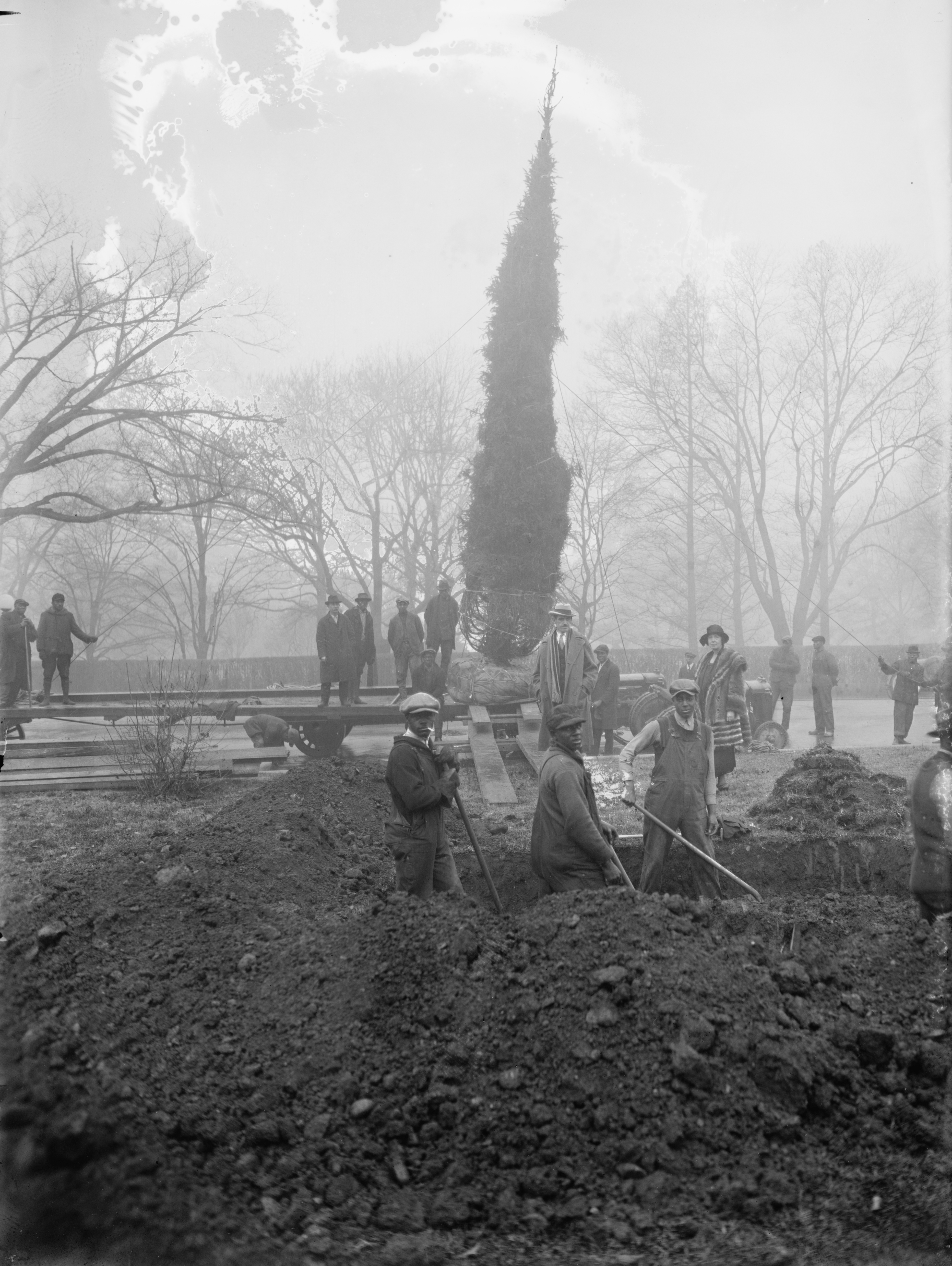 A community Christmas tree is being planted.